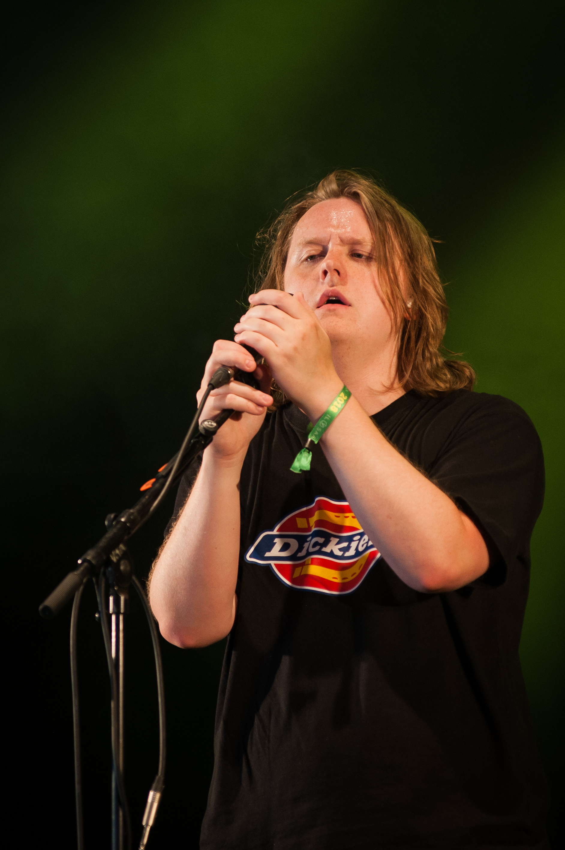 Scottish singer-songwriter Lewis Capaldi performing at the 2018 Ilosaarirock festival in Joensuu, Finland.